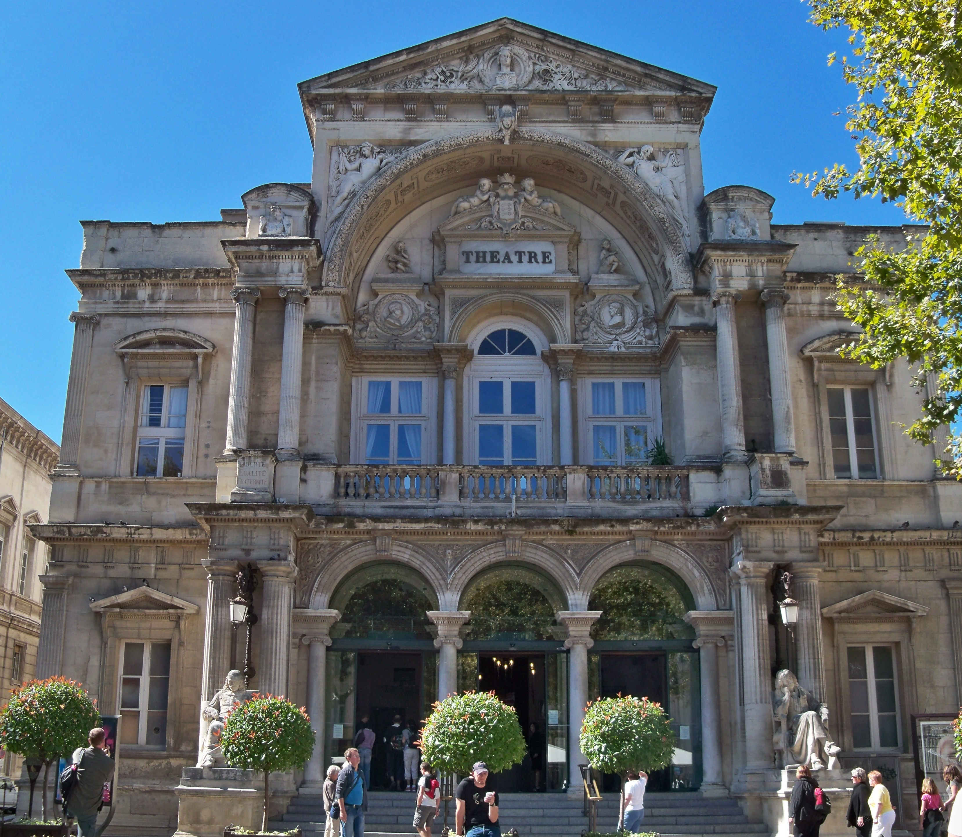 city theater of Avignon, Vaucluse, France